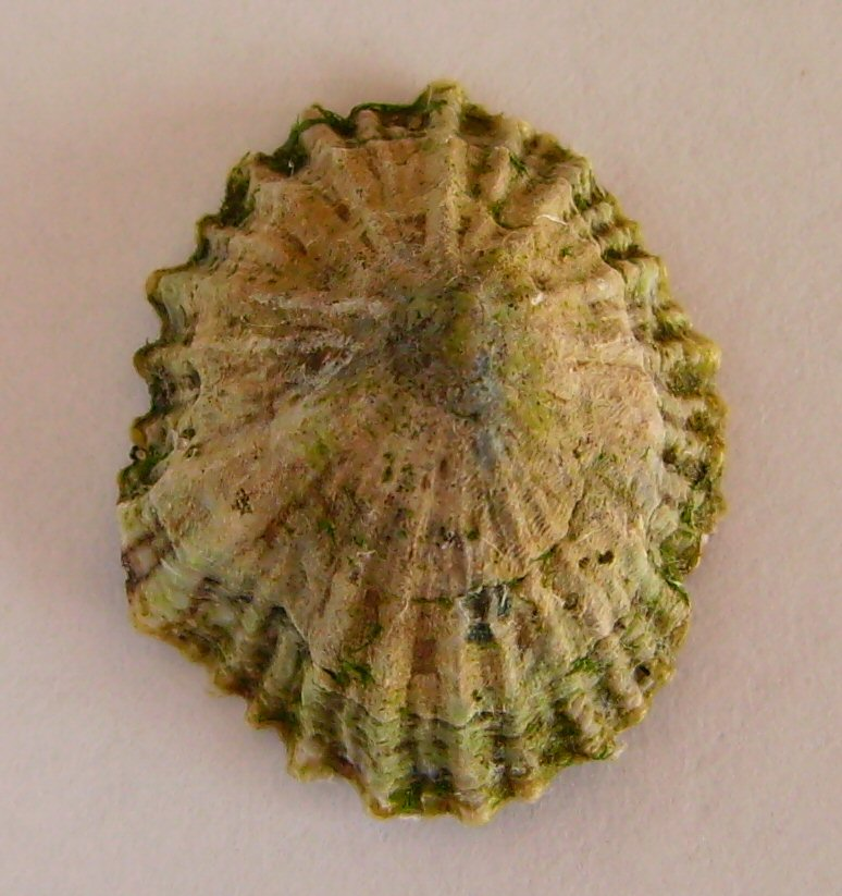 Siphonaria zelandica from Whatipu, New Zealand. This work has been released into the public domain by its author, Graham Bould. This applies worldwide.In some countries this may not be legally possible; if so:Graham Bould grants anyone the right to use this work for any purpose, without any conditions, unless such conditions are required by law.